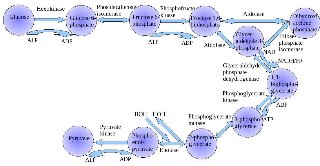 Glycolysis diagram.